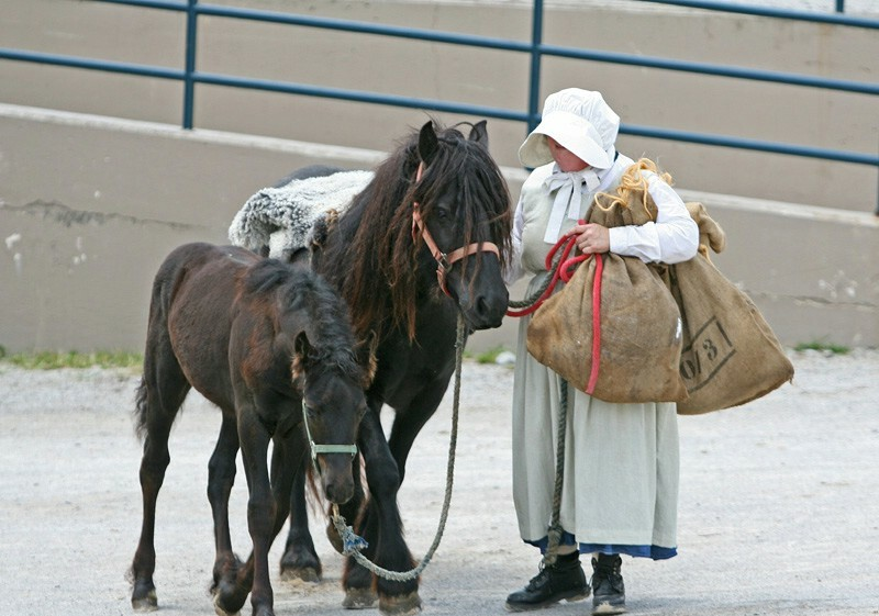 Photo by Heather Abounader